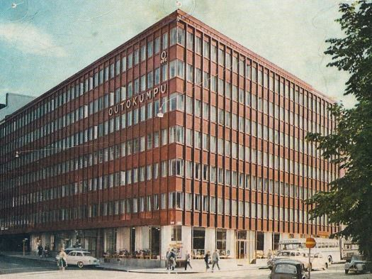 Outokumpu Ltd Copper Headquarters, Helsinki, Finland, architects Blomstedt & Lampén